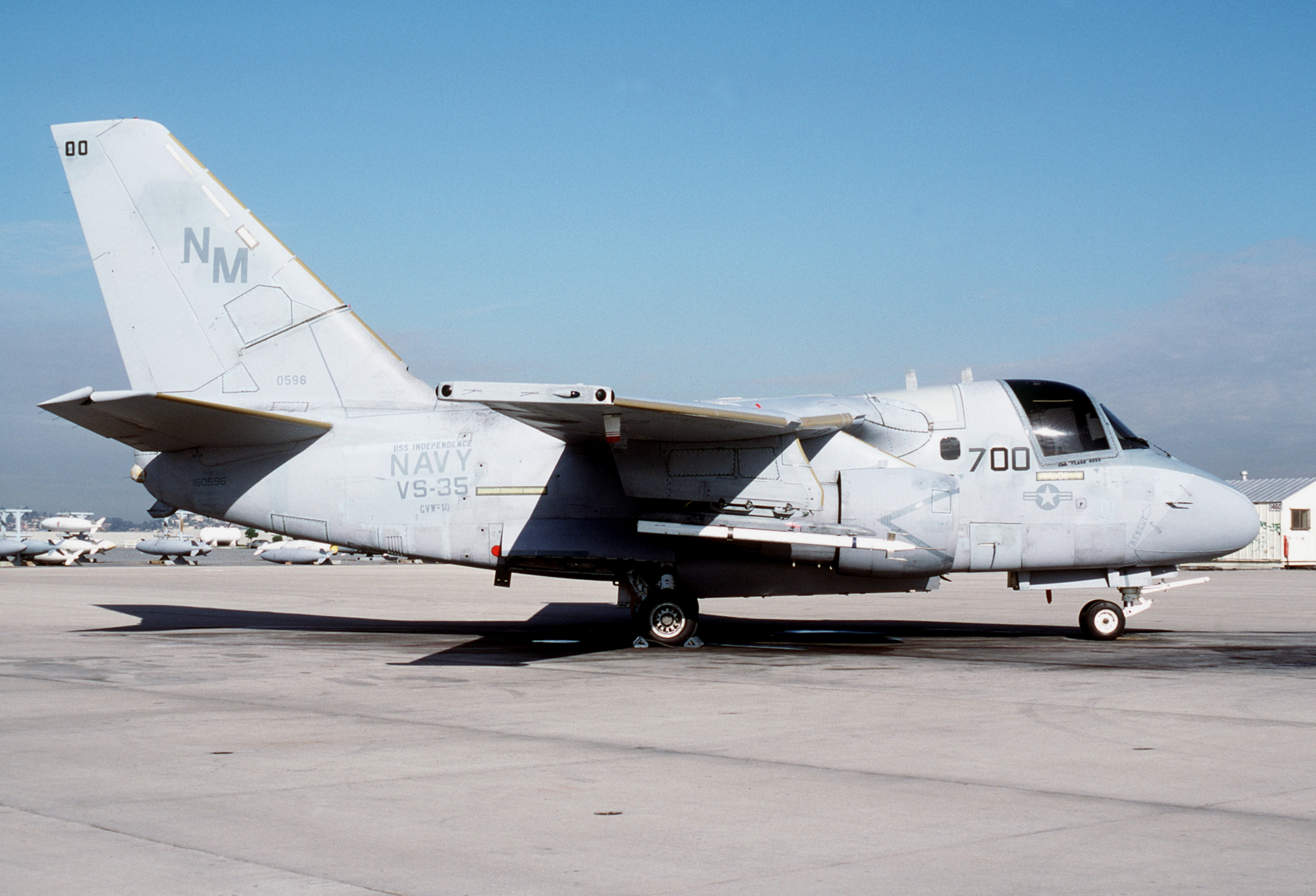 A U.S. Navy Lockheed S-3A Viking (BuNo 160596) from Anti-Submarine Squadron 35 (VS-35) "Boomerangers" at Naval Air Station North Island, California (USA), on 23 December 1986. VS-35 was assigned to Carrier Air Wing 10 (CVW-10), which was established in 1986. It was never deployed on its assigned aircraft carrier USS Independence (CV-62) and was disestablished in 1988.